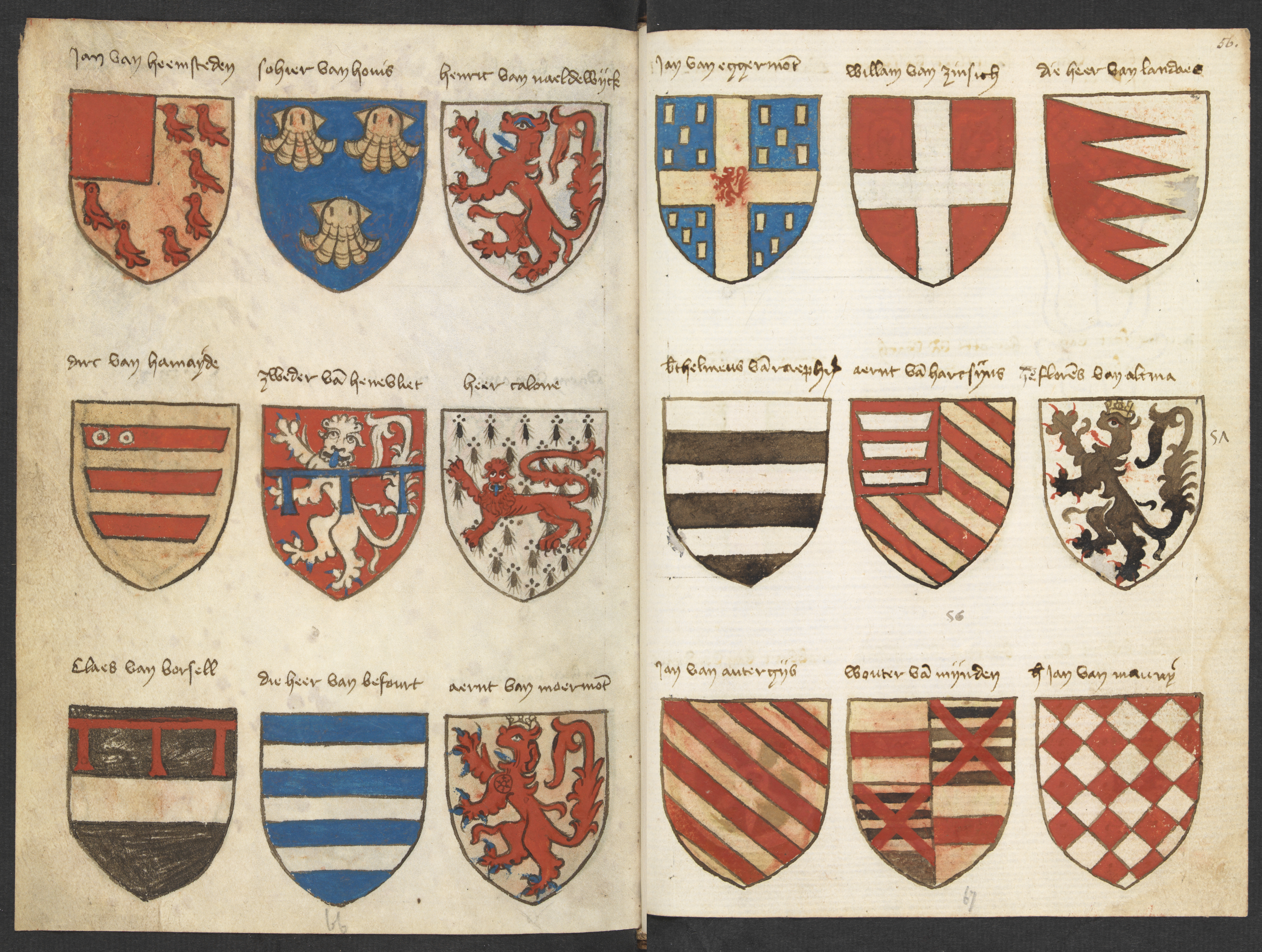 Lefthand side folio 055v; righthand side folio 056r from the Beyeren armorial / Wapenboek Beyeren